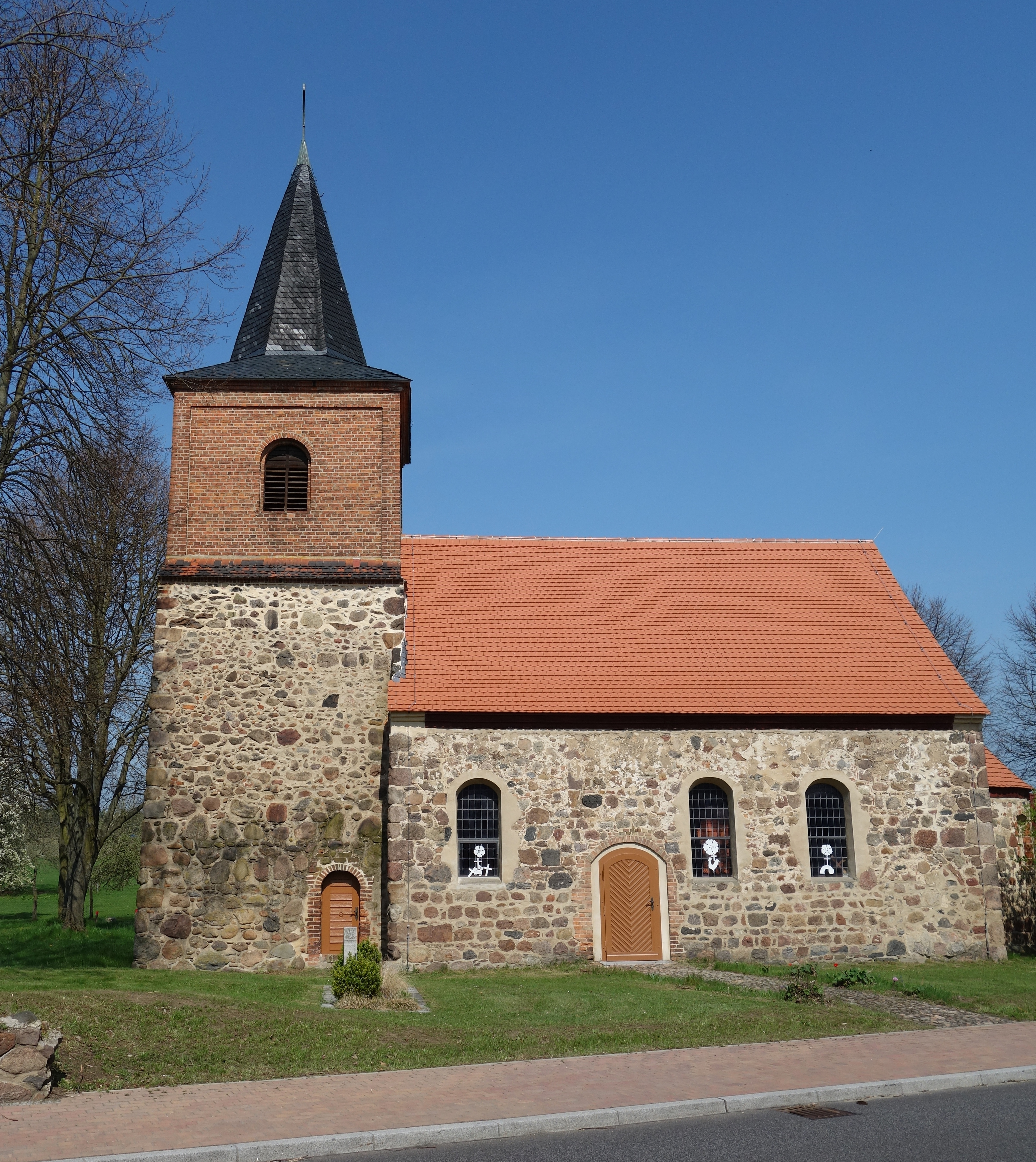 South-south-eastern view of the church in Haseloff , Mühlenfließ municipality , Potsdam-Mittelmark district, Brandenburg state, Germany.